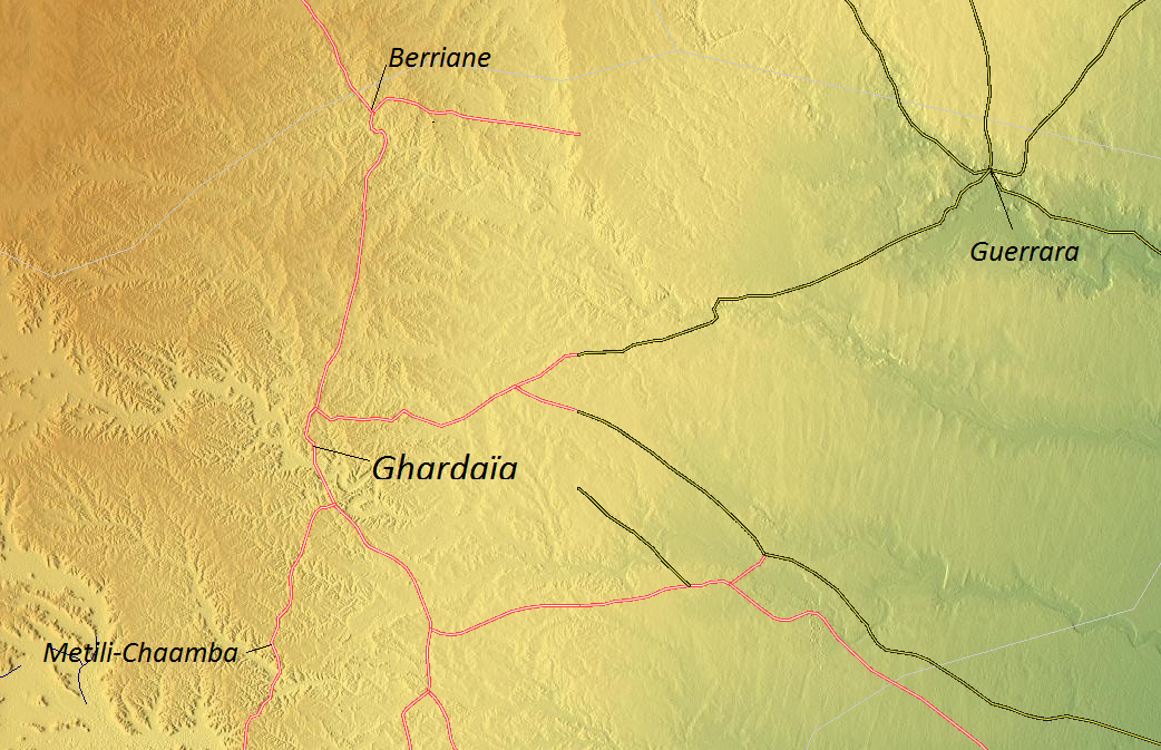 Relief map of Ghardaïa commune, Algeria